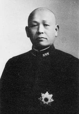 Gengo Hyakutake is an Imperial Japanese Navy admiral.